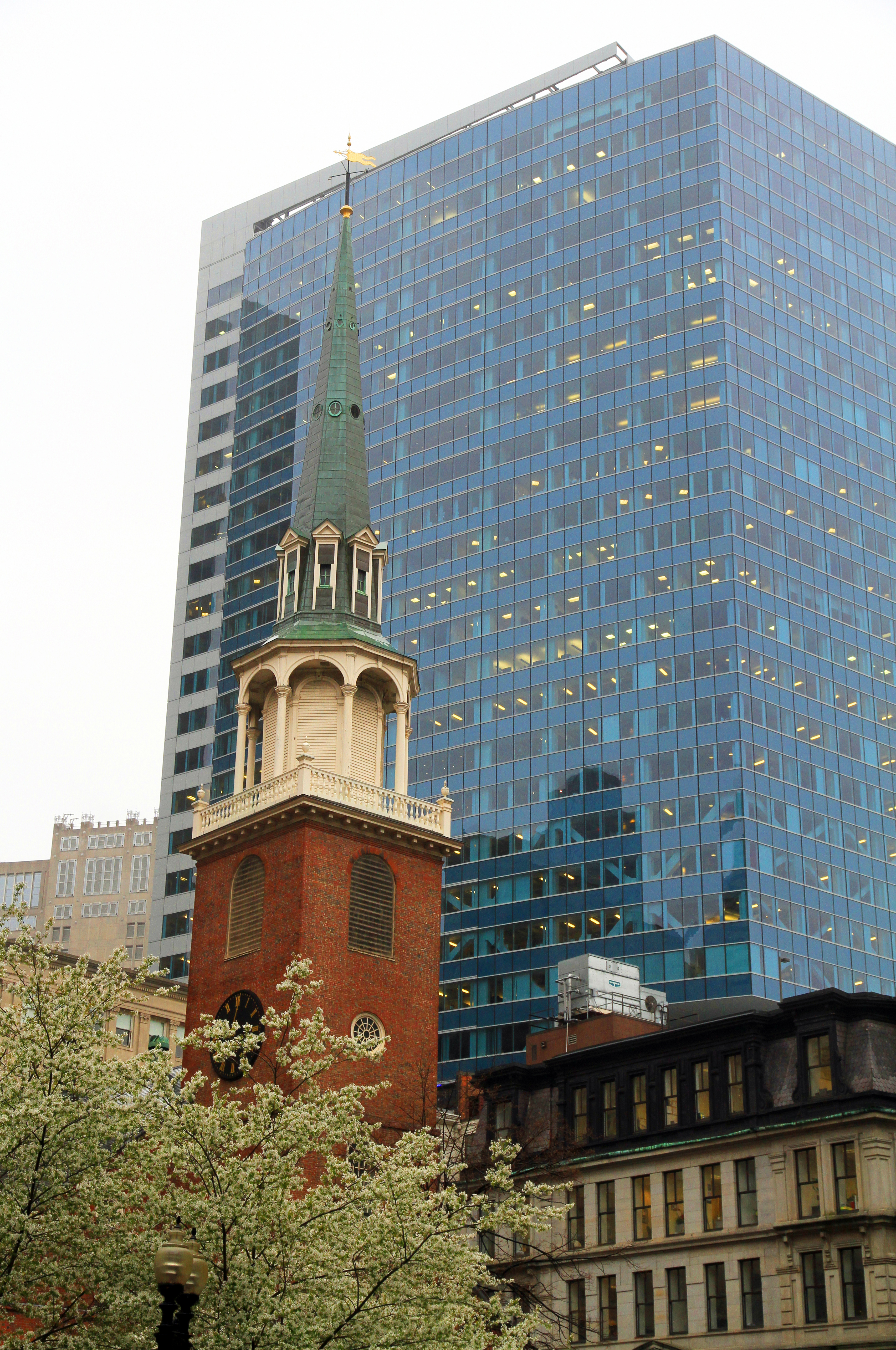 Old South Meeting House